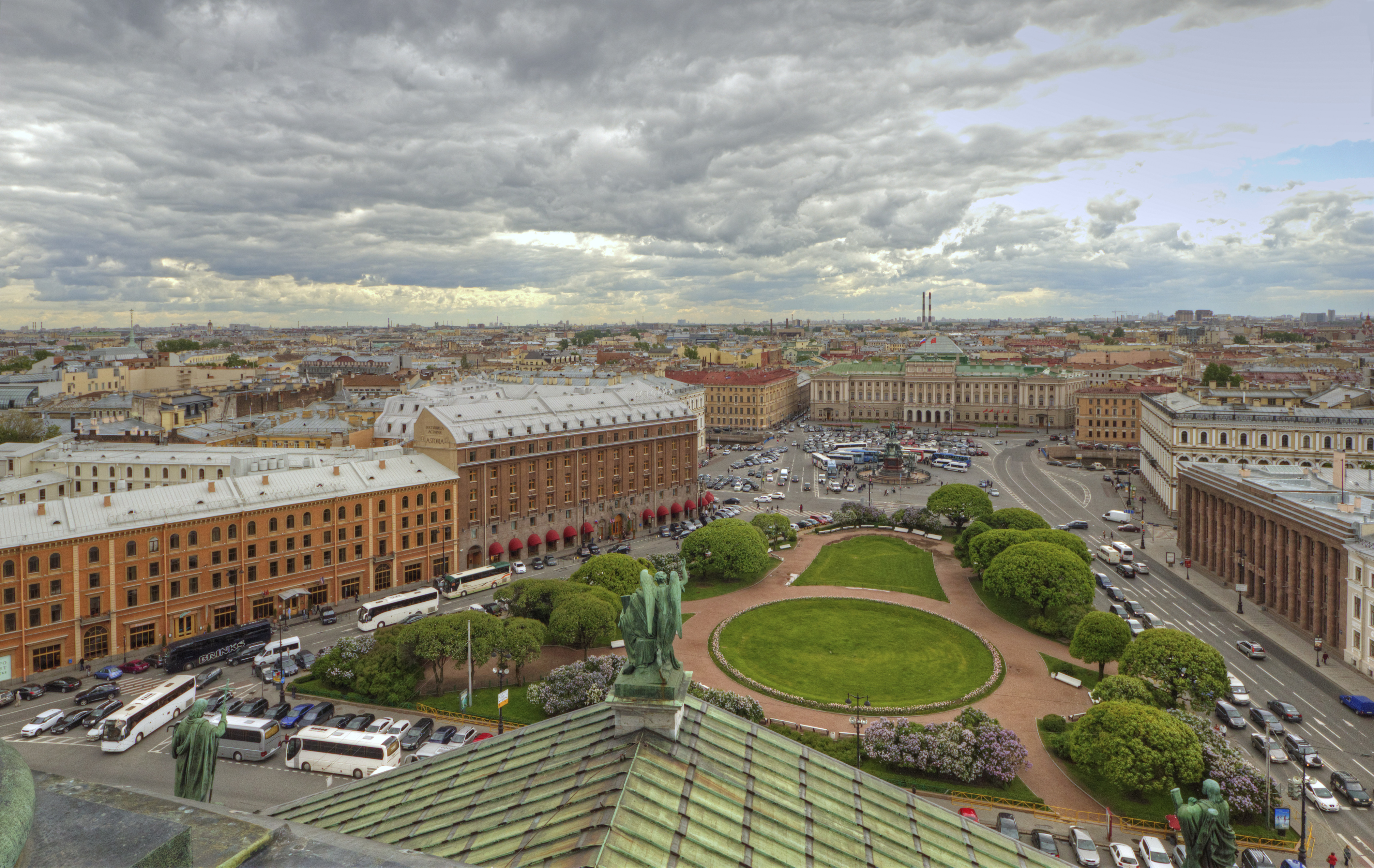 St. Petersburg, Russia. Views from the visitor's gallery at the Colonnade of the St. Isaac's Cathedral.